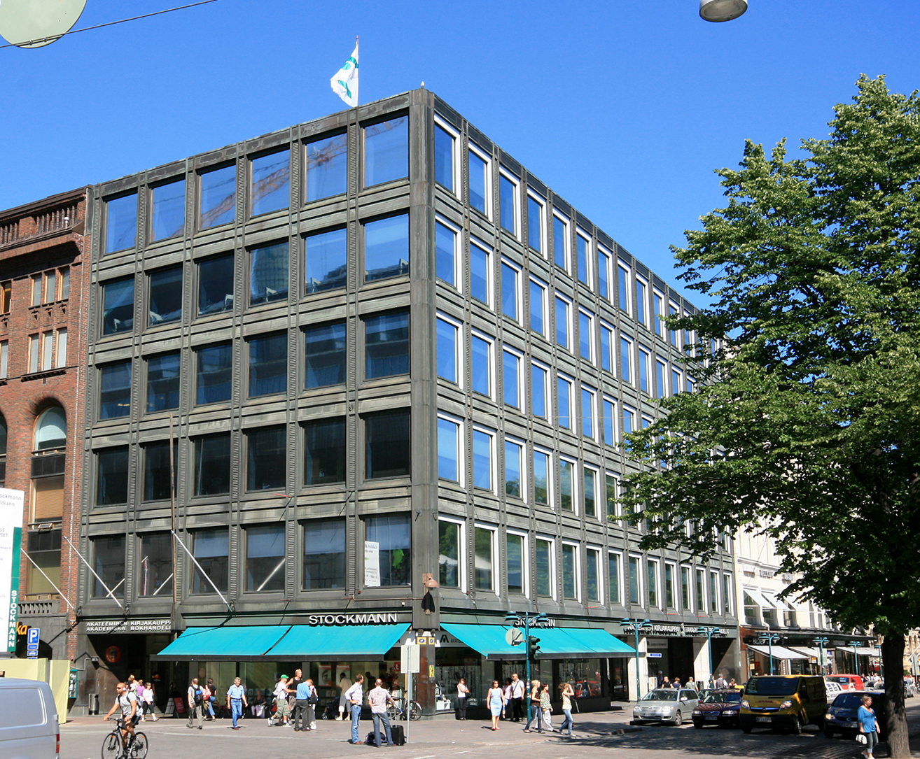 Academic bookstore, Helsinki. Architect: Alvar Aalto. Built 1969.